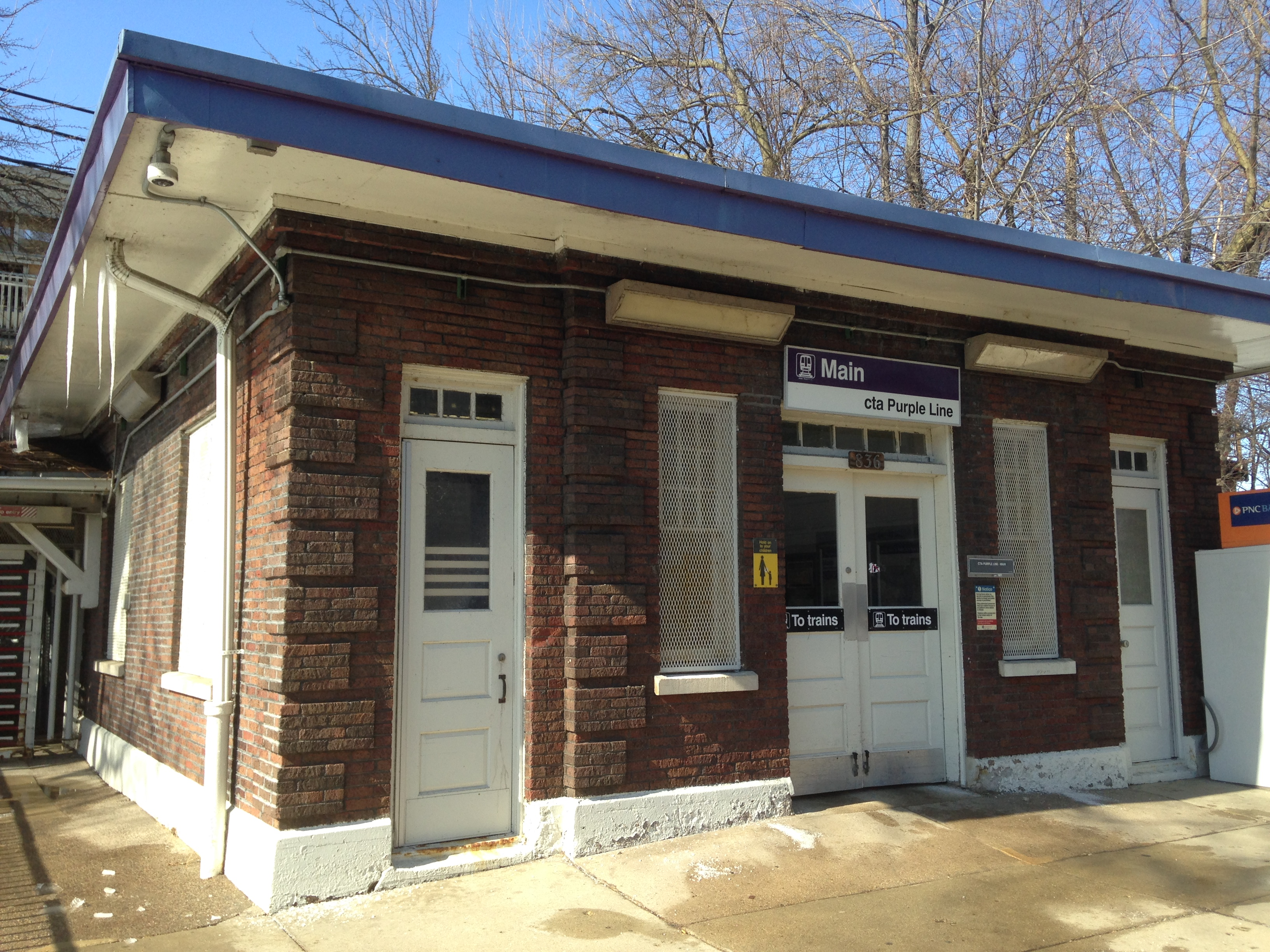 The Main Street station house on the CTA Purple Line elevated train, in Evanston, Illinois, United States, in 2020.